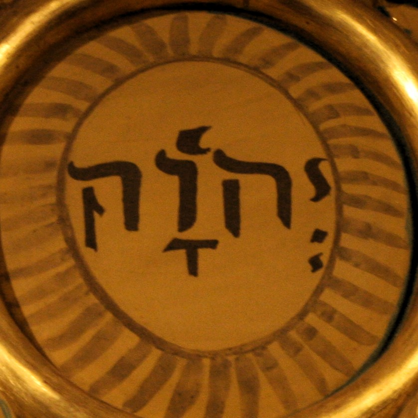 Wittenberg University debate lectern, crowning detail with the Tetragrammaton painted on leaf gilded wood